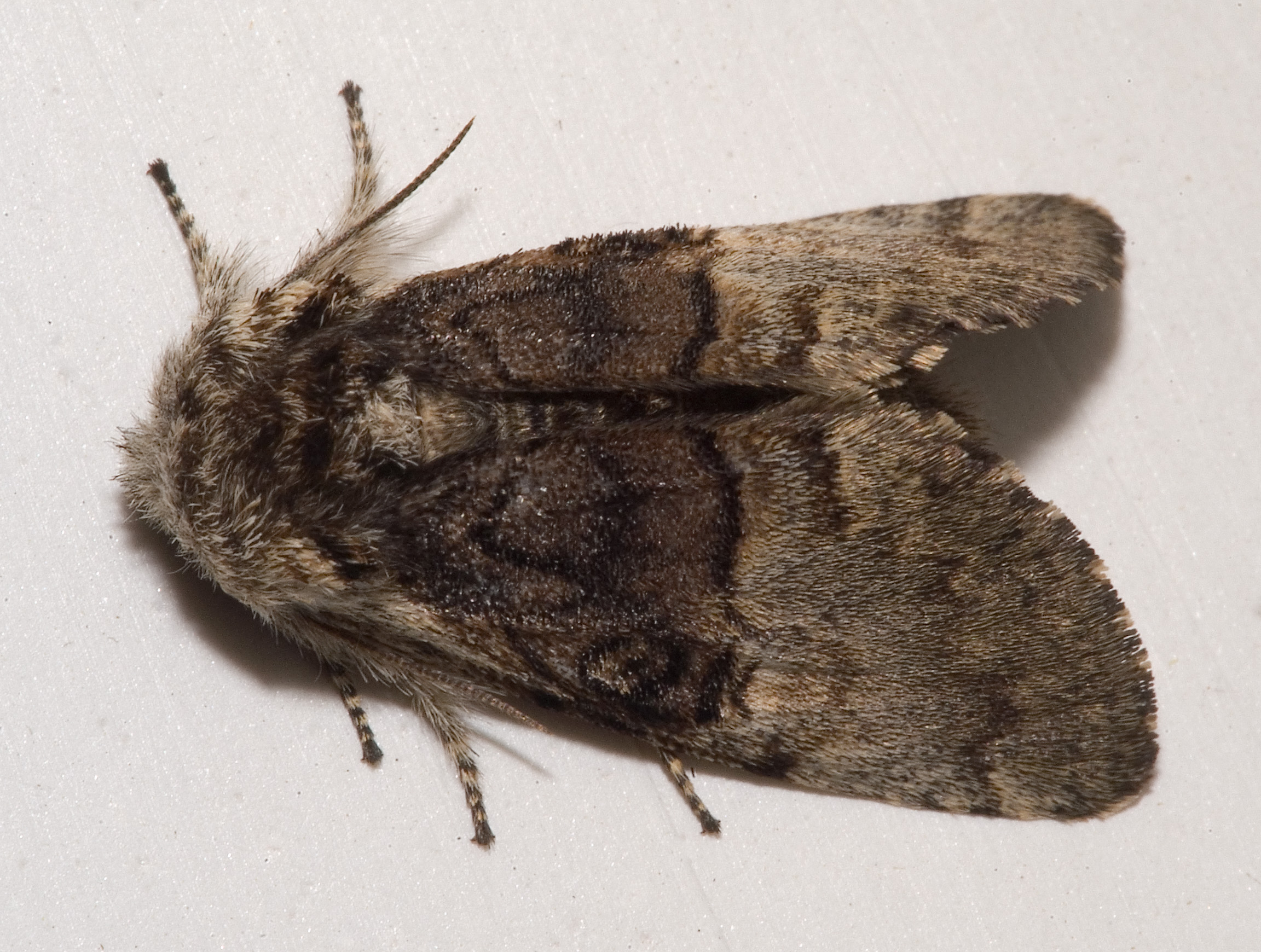 Please report references to kulacgmx.at.